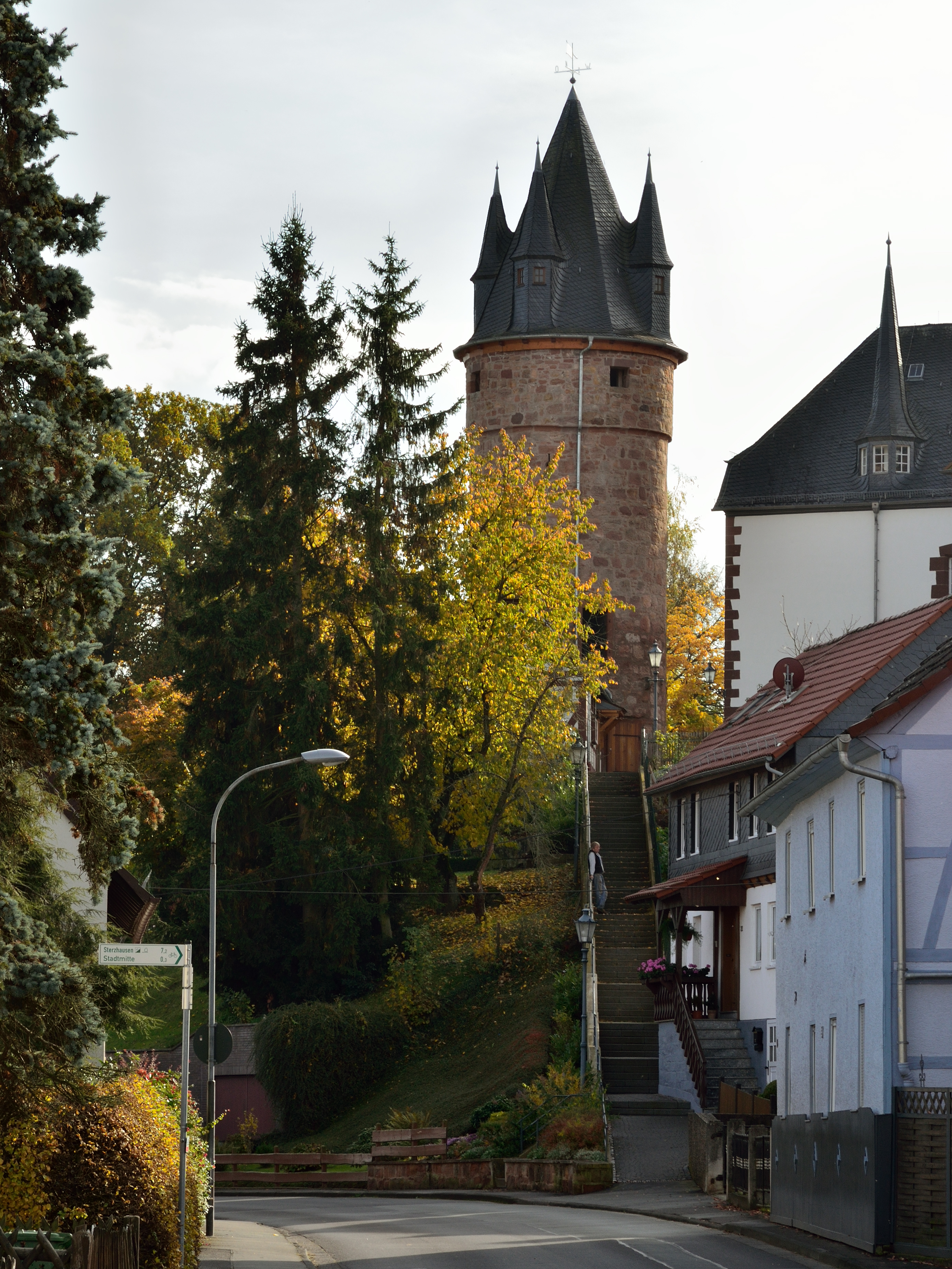 The "Thief tower" in Wetter, Hesse